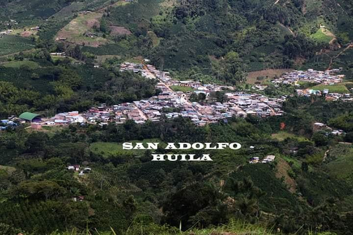 San Adolfo Acevedo Huila